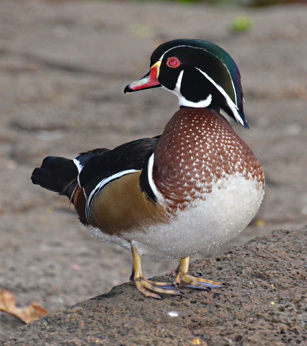 Male Wood Duck profile. Captive, India